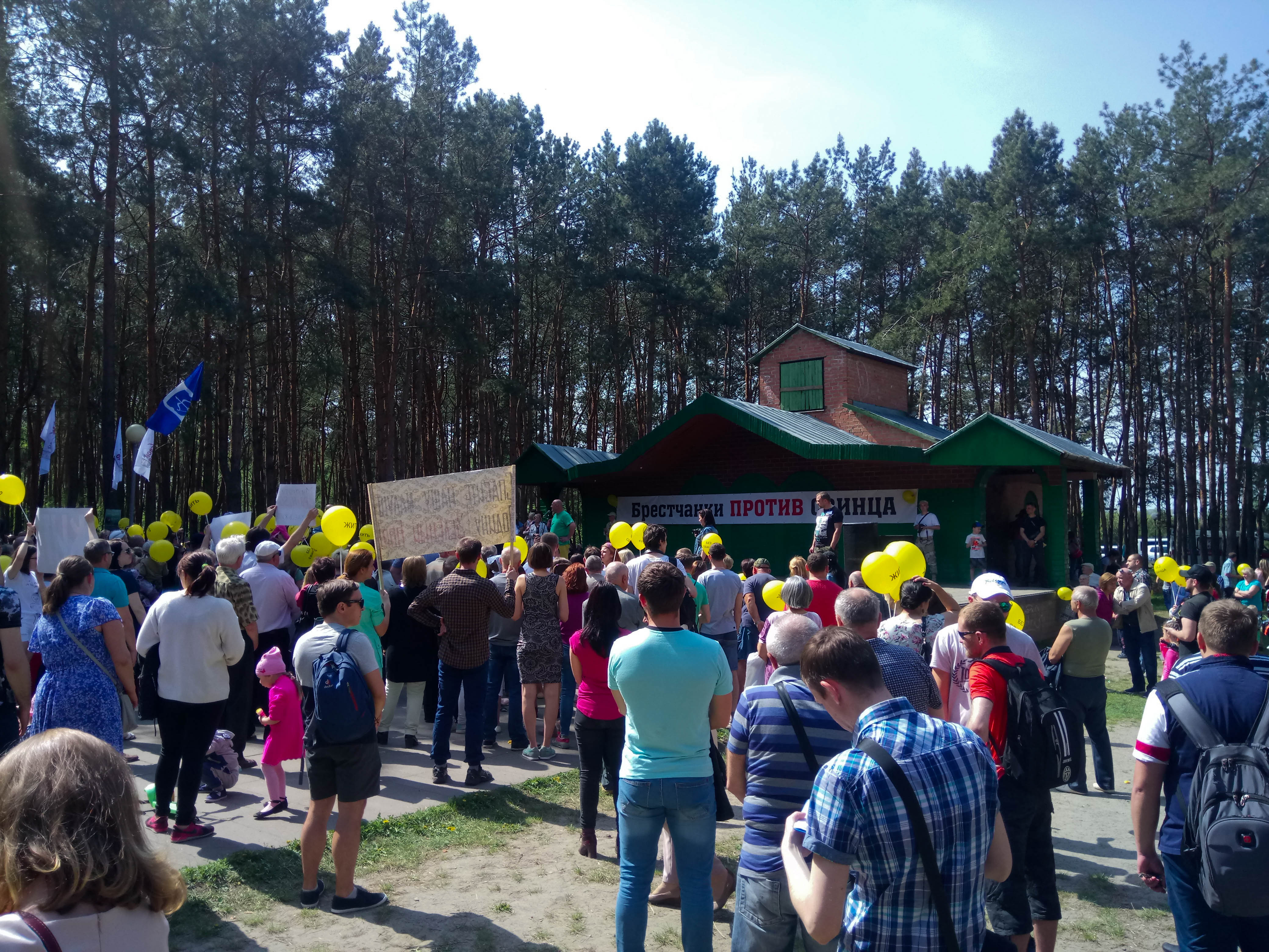 Protests against the construction of the Chinese-funded lead-acid battery factory near Brest, April 2018.